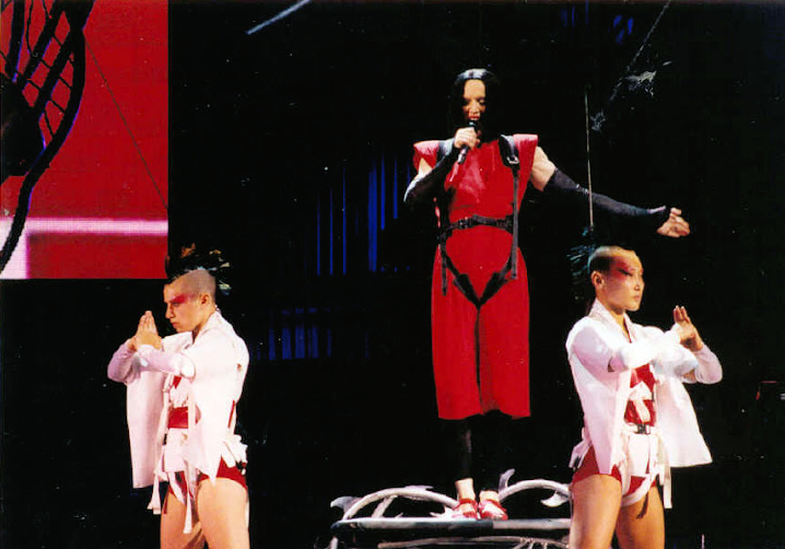 Photo taken during one of the concerts in 2001